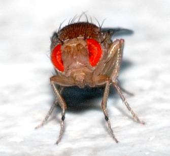 This image shows a 0.1 x 0.03 inch (2.5 x 0.8 mm) small Drosophila melanogaster fly.